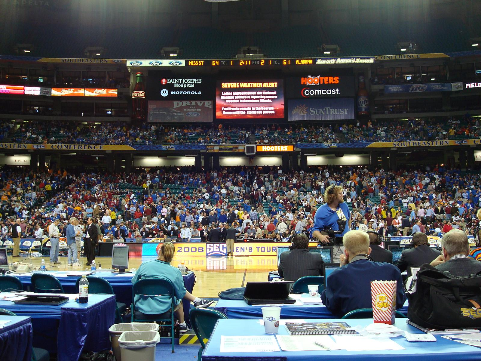 A tornado caused a disruption in the Mississippi State vs. Alabama game of the 2008 SEC Tournament in Atlanta. The National Weather Service had issued a tornado warning at 9:26 p.m., because radar indicated a thunderstorm capable of producing a tornado.[5] The storm tore open a panel on the north side of the dome; sheared bolts and insulation fell into the arena. After the storm passed, the teams returned to the court at 10:30 and completed the game. Mississippi State defeated Alabama in overtime 69-67.